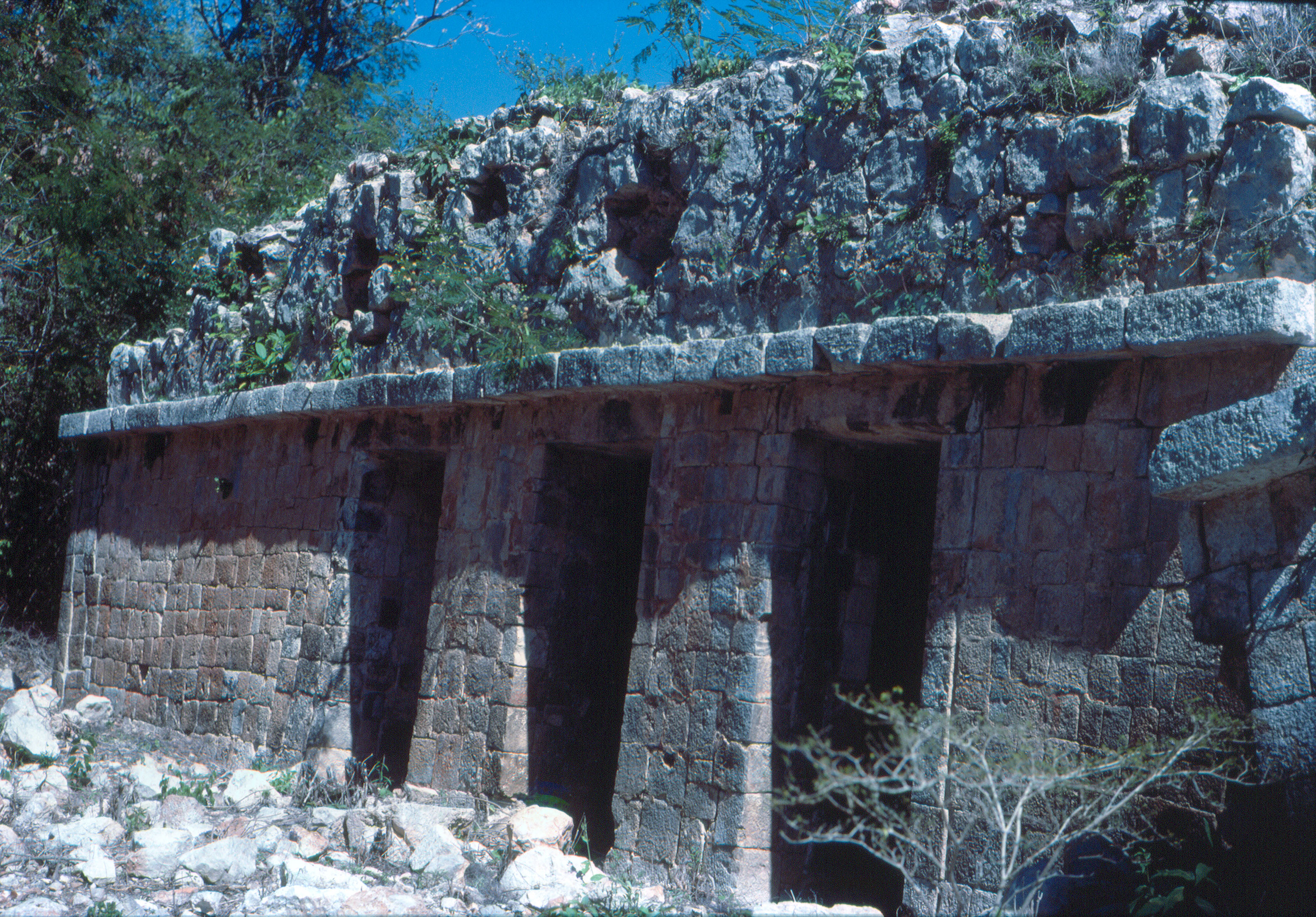 Sayil, Yucatan, Mexico: Structure 2C4 west side.